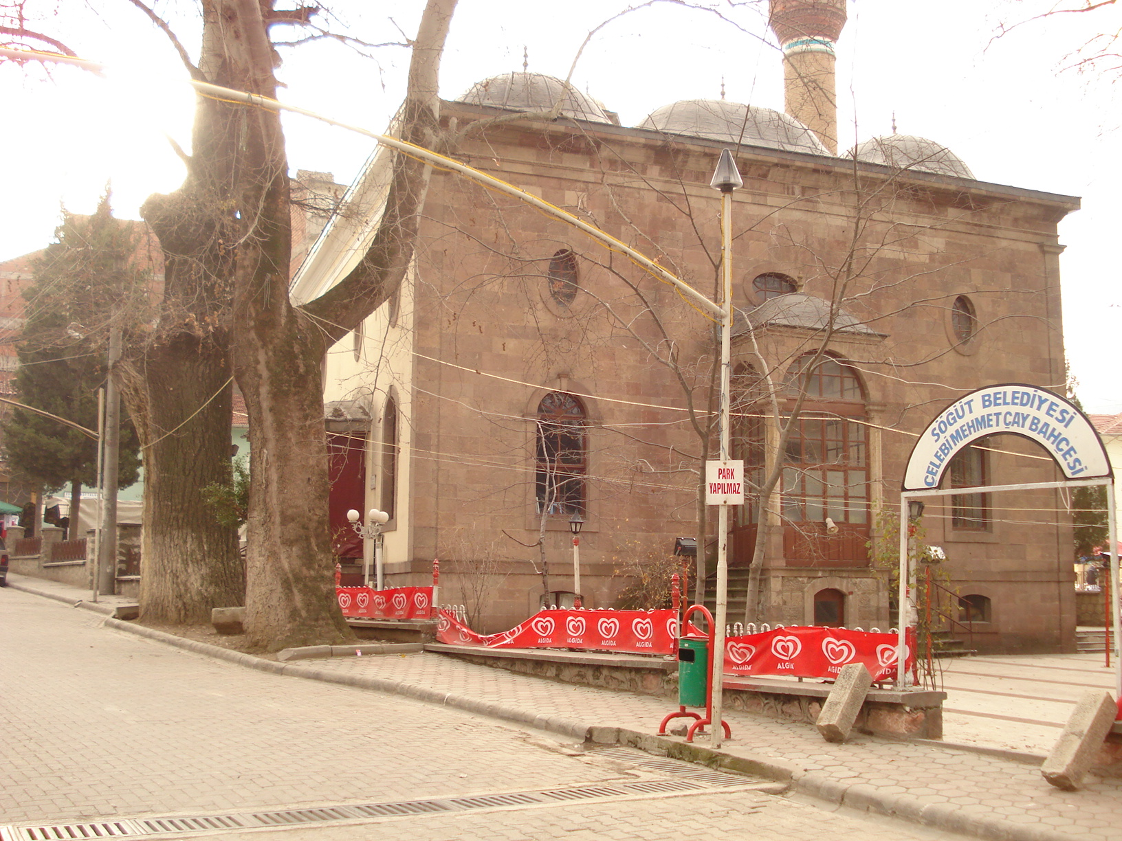 Çelebi Mehmet Mosque in Söğüt.